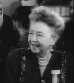 Cropped screenshot of Dame May Whitty from the film Stage Door Canteen.